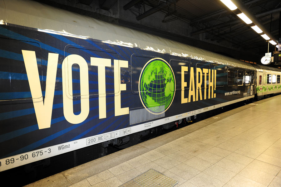 The Climate Express leaving Brussels